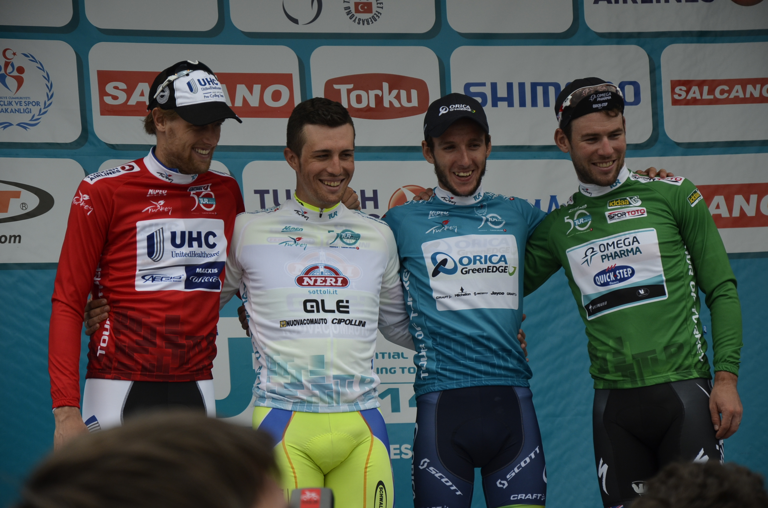 Marc de Maar, Mattia Pozzo, Adam Yates, Mark Cavendish (from left to right) at Tour of Turkey 2014